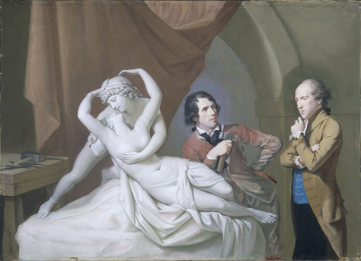 Hugh Hamilton, Antonio Canova in His Workshop